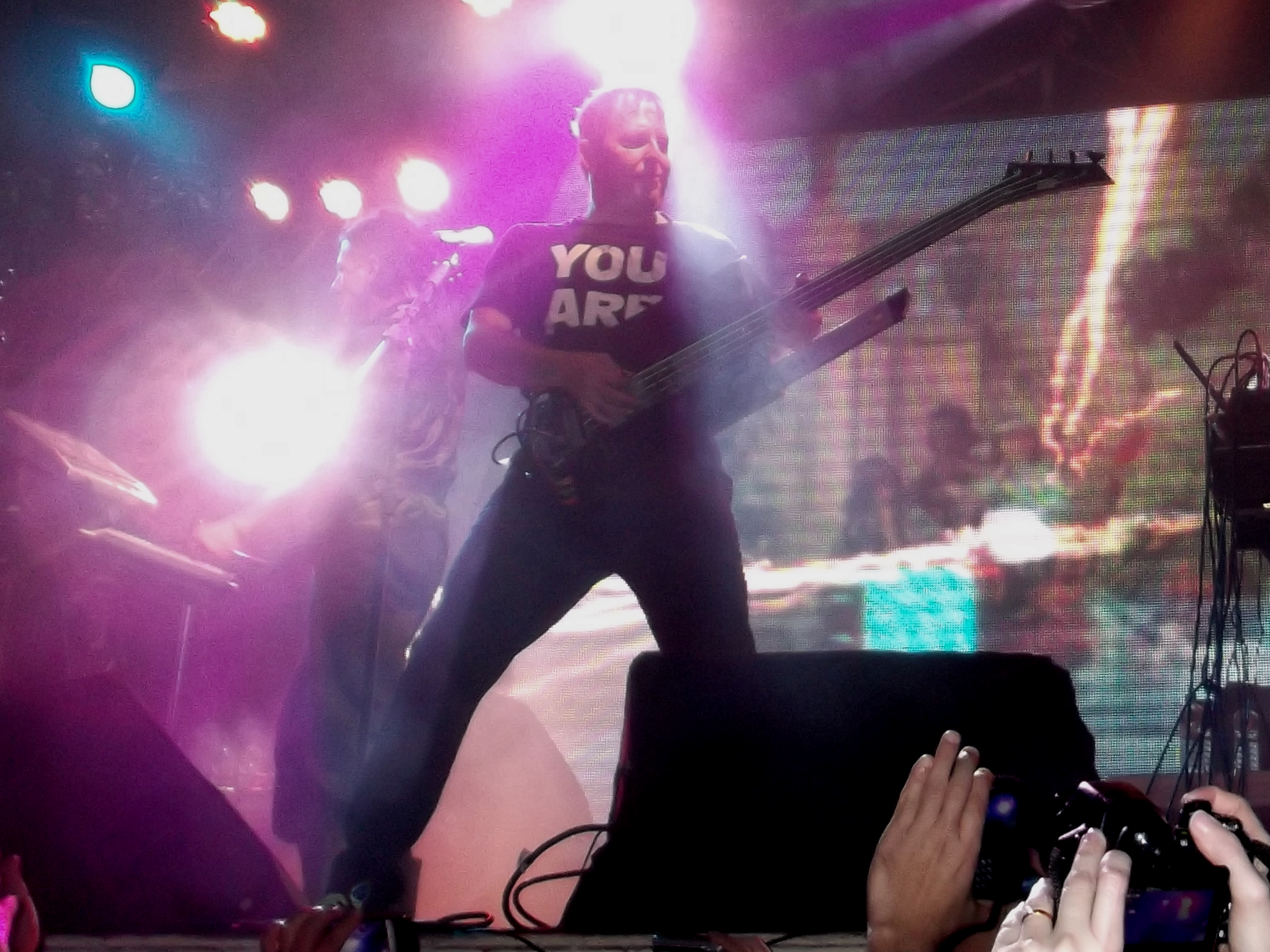 James Cassidy performing live with Information Society on July 21th 2012 at Taubate, São Paulo, Brazil.